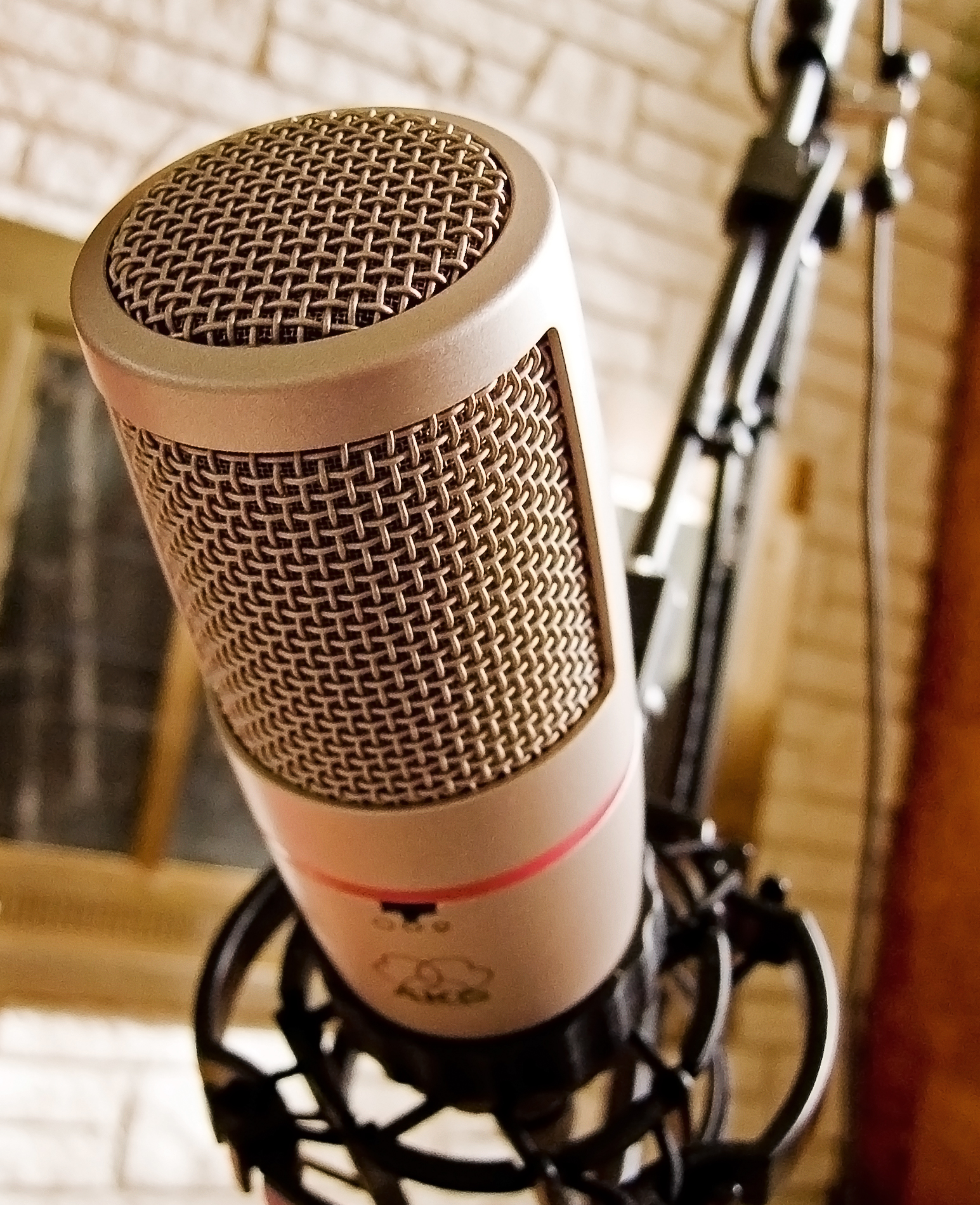 AKG C4000B. ..and fireplace.